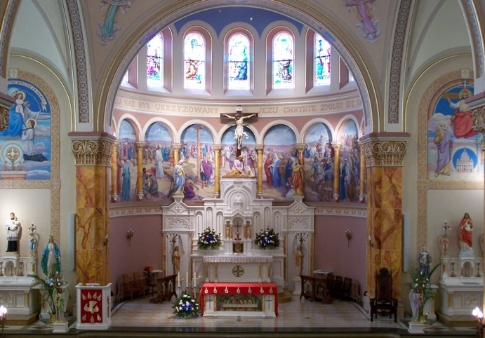 St. Stanislaous Church in St. Louis